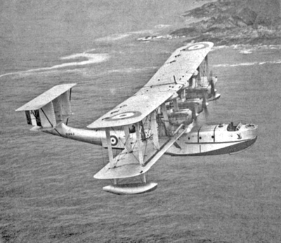 The Blackburn Iris Mk III, S1263, before conversion to a Mk V. Flight - picture scanned by me Ian Dunster 14:25, 5 January 2006 (UTC) from the 1263 - The Story Of A Blackburn Iris article in the December 1973 issue of Aeroplane Monthly and credited to: Flight This image is for illustrative purposes within the linked article(s) and is of a reduced size and quality from the original. Where known, the source and original artist/photographer and/or copyright owner are credited.